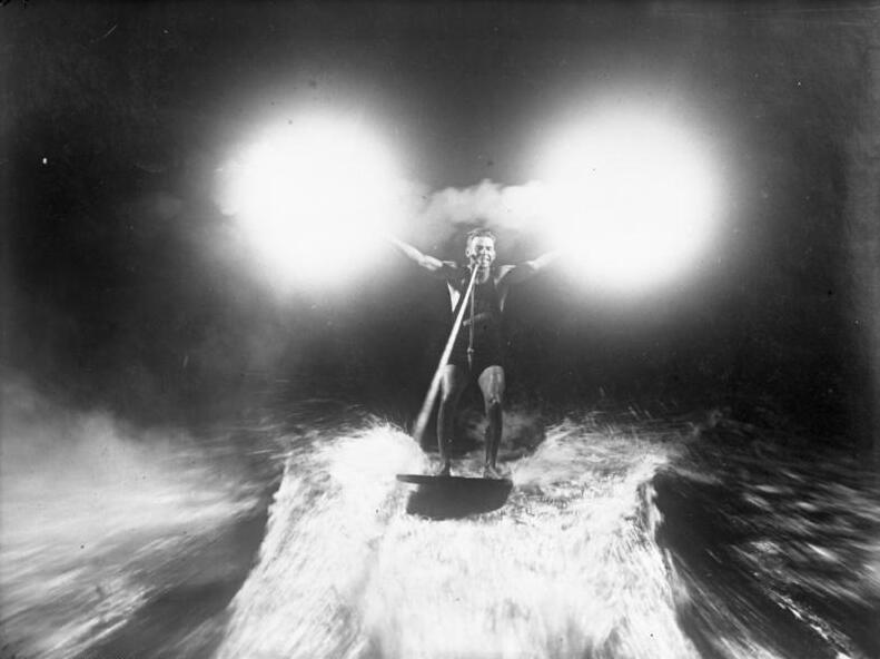 Translation of the original caption from the German Federal Archive: Water rider with magnesium flares Water riding behind a motorboat with magnesium flares at night! The water rider stands on a board and is pulled through the water at a fast pace by a motorboat by means of a rope, which he holds with his teeth. In his hands he holds magnesium flares, which give a ghostly illumination all around.